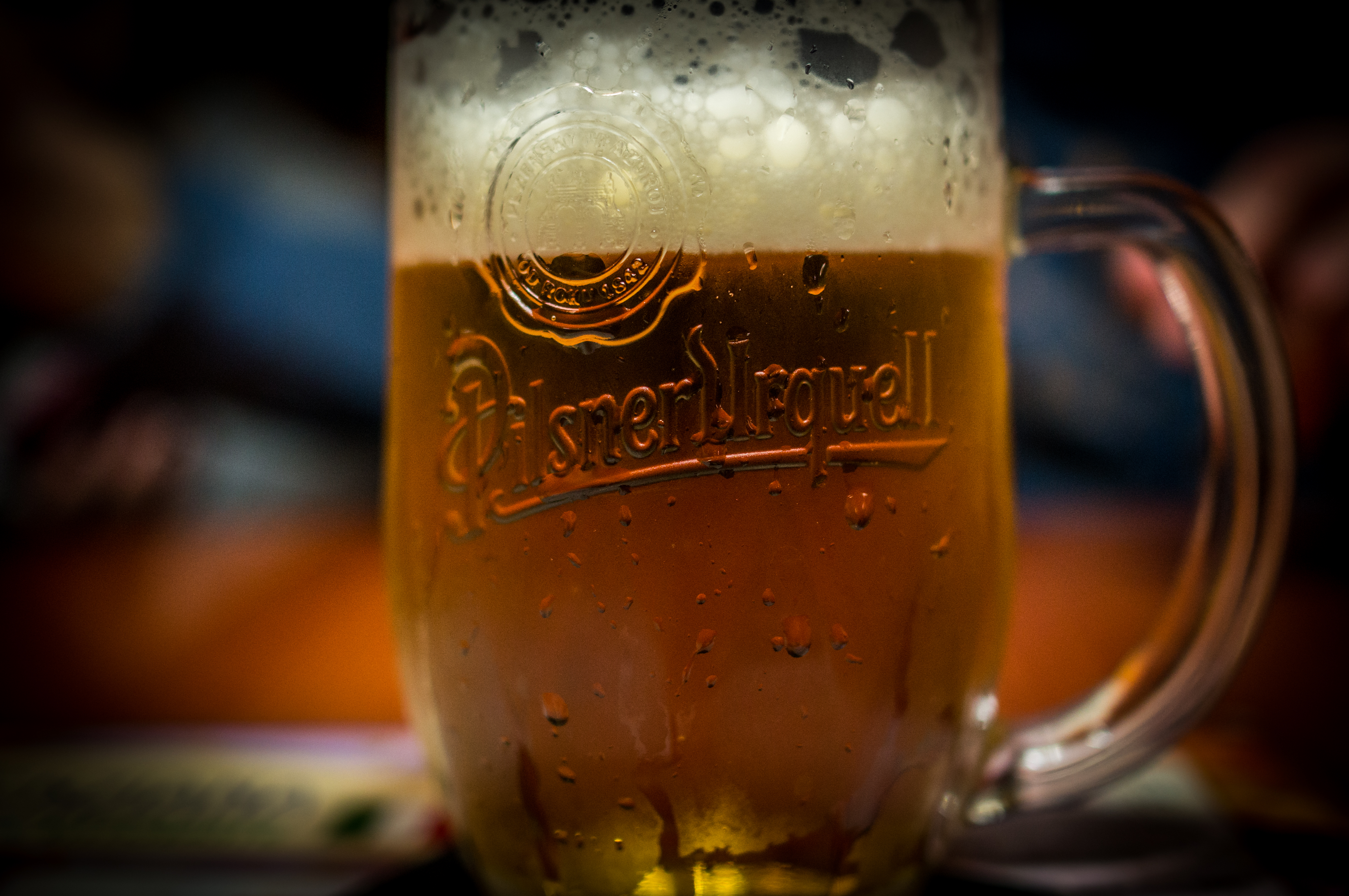 Glass of Pilsner Urquell